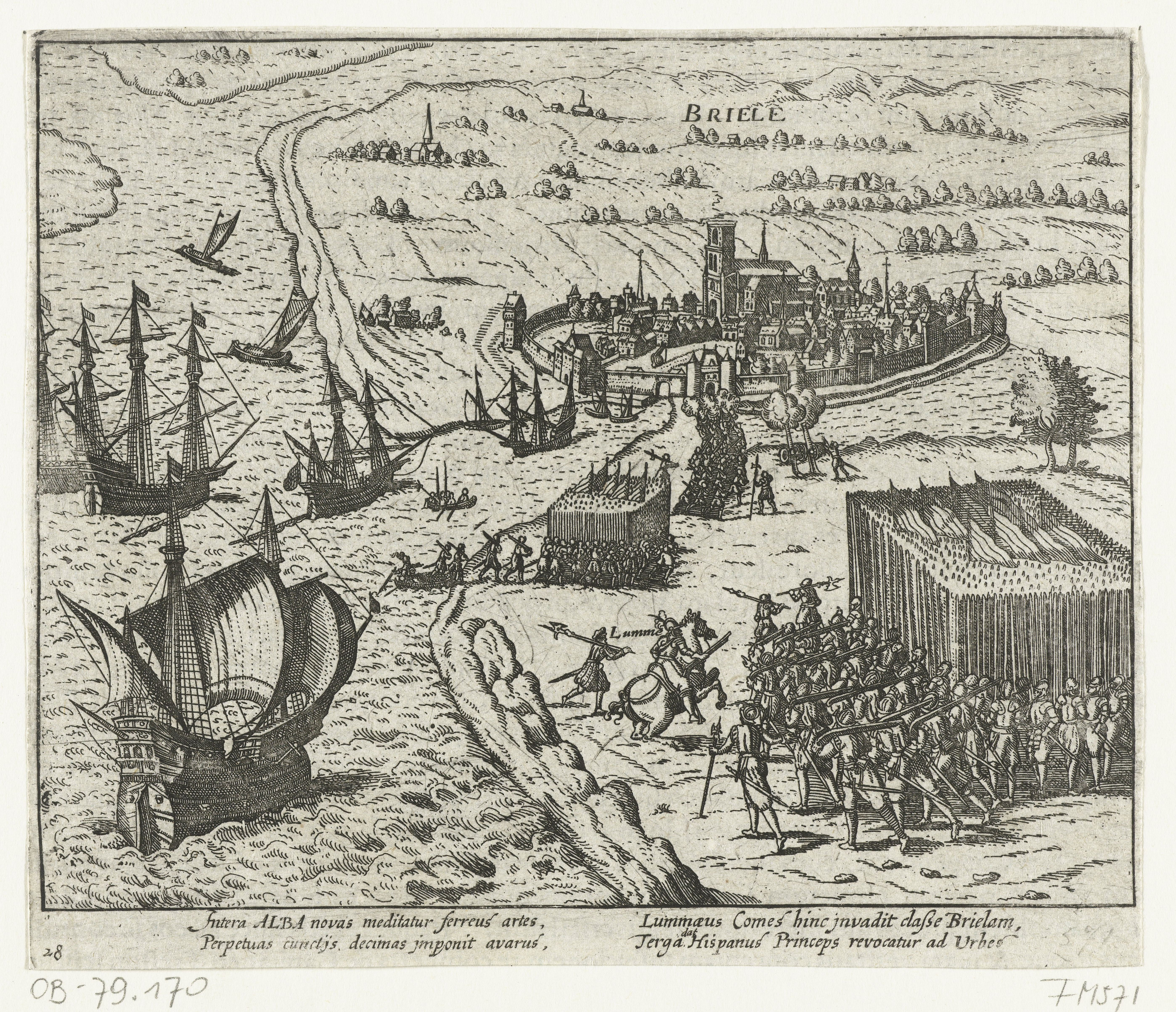 Depiction of the capture of Den Briel (present day Brielle) near Rotterdam by the Watergeuzen (protestant rebels) commanded by Lumey and Blois van Treslong, 1 April 1572. Lumey mentioned as Lumme.